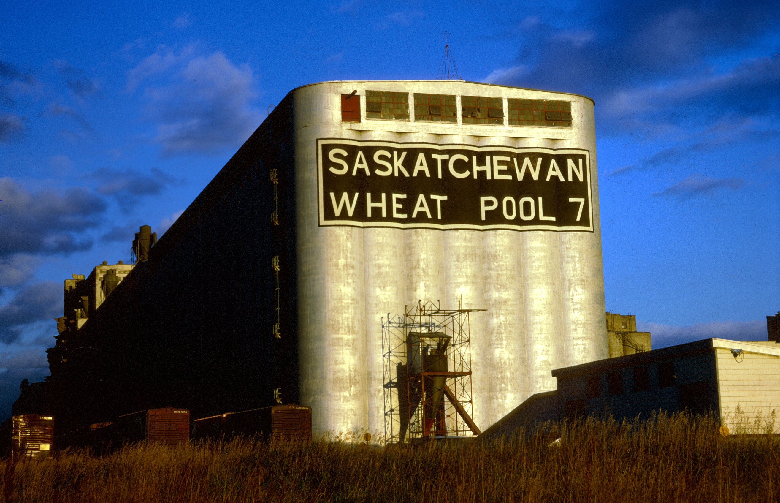 Located in Thunder Bay....it was the longest in the world when built. Other images by this contributor - User:Sba2 Use this image as needed, but for uses other than personal, please credit as "Photo by Scott Williams".